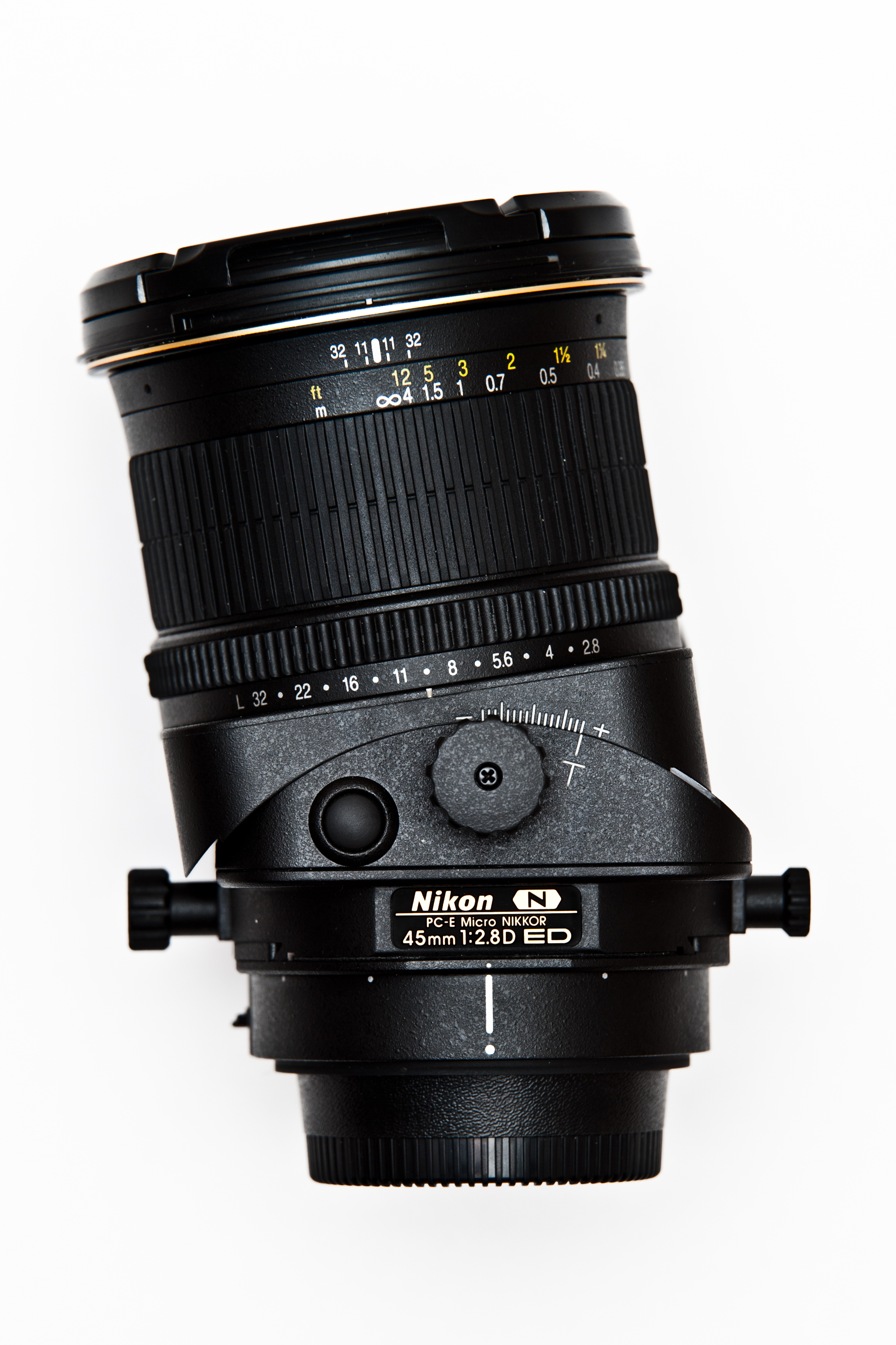 Nikon 45mm f/2.8D ED PC-E Perspective control lens with electronic aperture